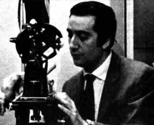 Italian director Paolo Nuzzi and writer Piero Chiara